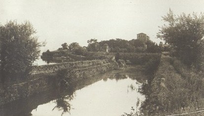 Bulgaria, Vidin: the moat between the walls of the Vidin City Fortress; in the background is Baba Vida Castle.